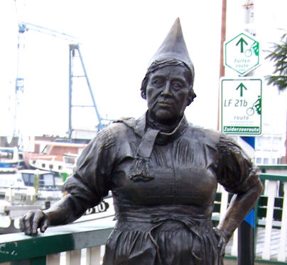 't Ootje (2000) by Jans van Baarsen in Volendam (NL)